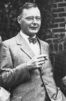 Hendrik Kramers around 1928 in Ann Arbor. Uhlenbeck and Goudsmit proposed the idea of electron spins three years earlier when they were studying in Leiden with Paul Ehrenfest. A high resolution picture may be obtained from AIP's Emilio Sergè Visual Archives alternative: According to MacTutor: We believe that most of the images are in the public domain and that provided you use them on a website you are unlikely to encounter any difficulty.